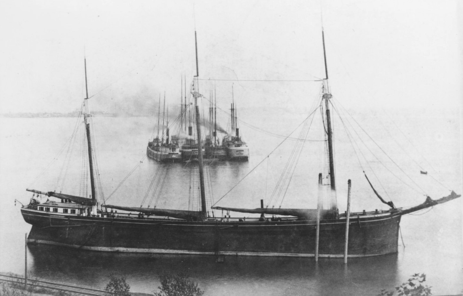 The schooner Sumatra before she sank